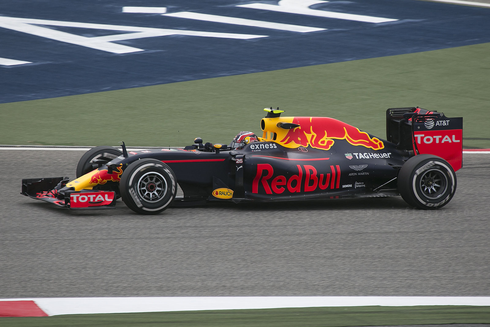 Daniil Kvyat at the 2016 Bahrain Grand Prix